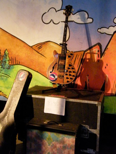 from the Wall of Sound days Furthur Festival at Angel's Camp California, 5-25-2010 References Phil Lesh's Alembic Modified Guild Starfire-"The Godfather". Alembic Club - Showcase - Artists and their Alembics (October 06, 2002).